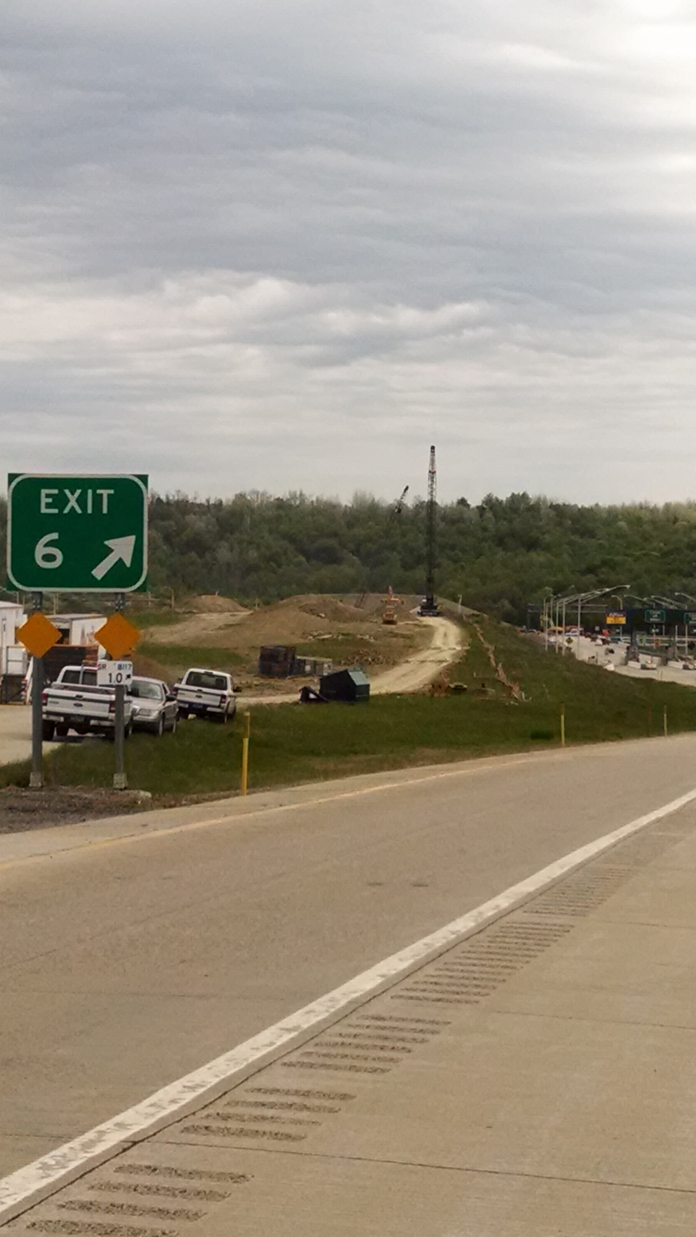 Current eastern terminus of Southern Beltway, with bridge to extend to second phase being shown under construction in the background. Took image myself May 20, 2014.